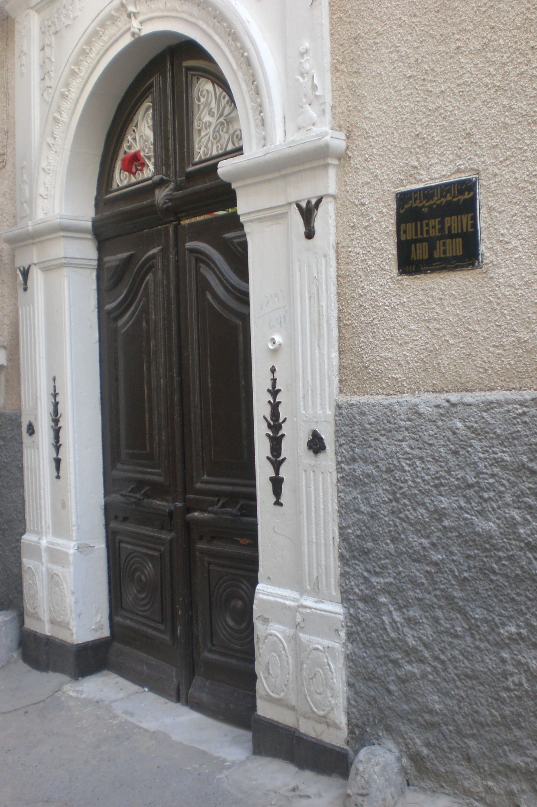 The Headquarters of the Ancient destour Parti, Rue Gharnouta -Tunis